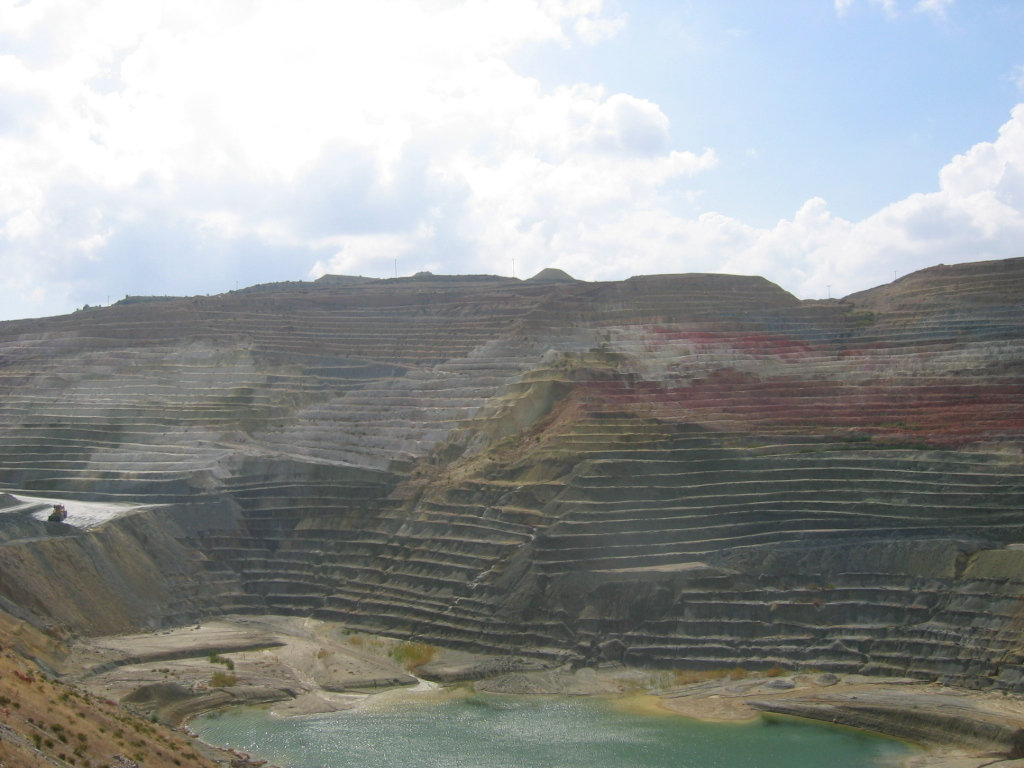 Aggeria Milos Bentonite Quarry